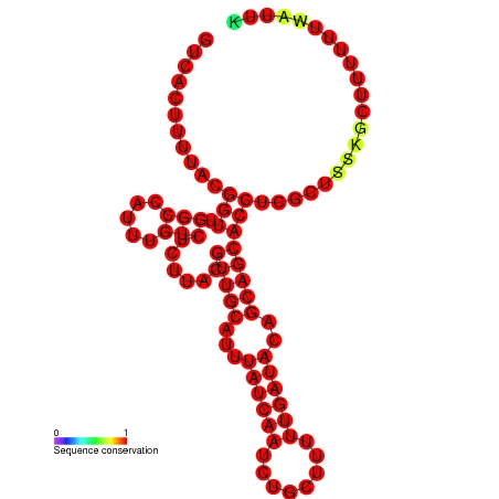 Secondary structure image for InvR non coding RNA (RF01384). Nucleotide colouring indicates sequence conservation between the members of this family.